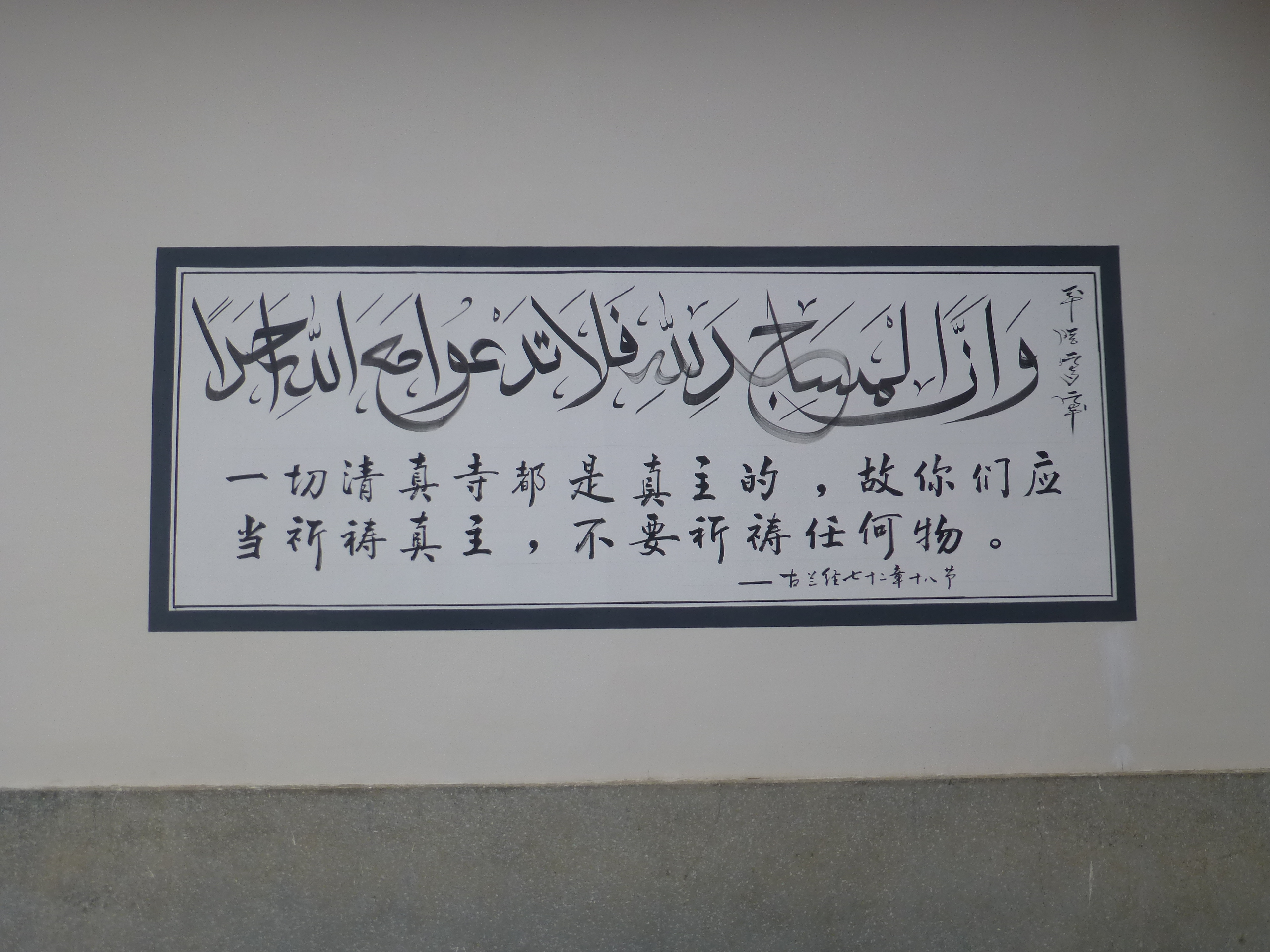 An inscription in Chinese and Arabic near a mosque in Dahui Village, Tonghai County, Yunnan. The Chinese text says "一切清真寺，都是真主的，故你们应当祈祷真主，不要祈祷任何物", which is the Chinese translation of Surah Al-Jinn (72:18): "And [He revealed] that the masjids are for Allah , so do not invoke with Allah anyone." The Arabic text, I assume, is the original Arabic text of that surah.